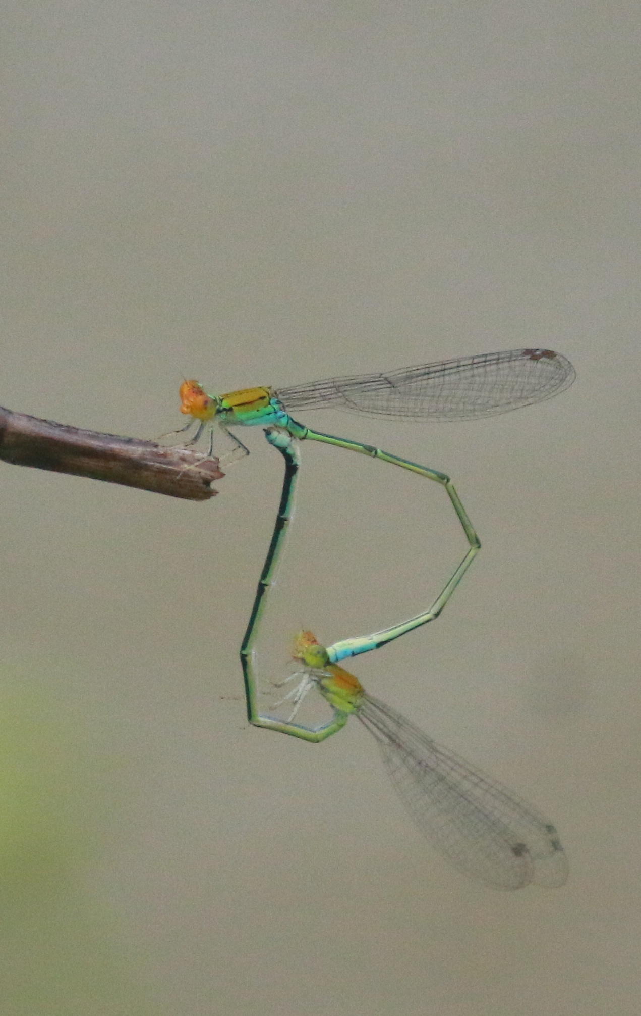 Saffron Faced blue dart ,Pseudagrion rubriceps